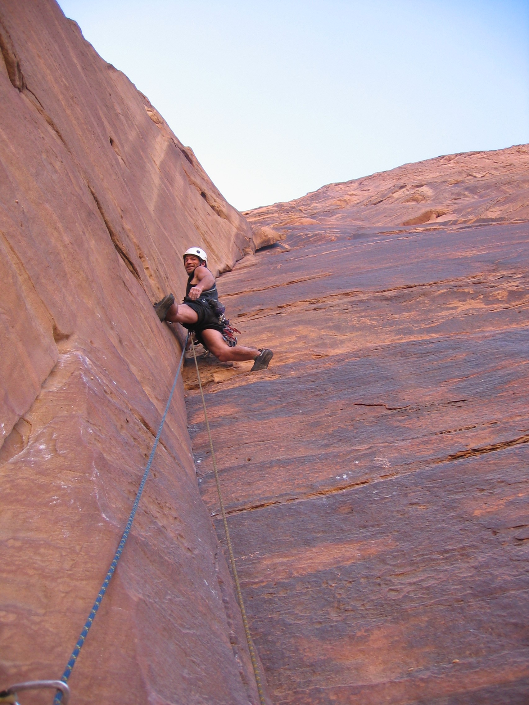 Andrew Walker on the 6b crux pitch, first climbed by Rowland Edwards in 1986.